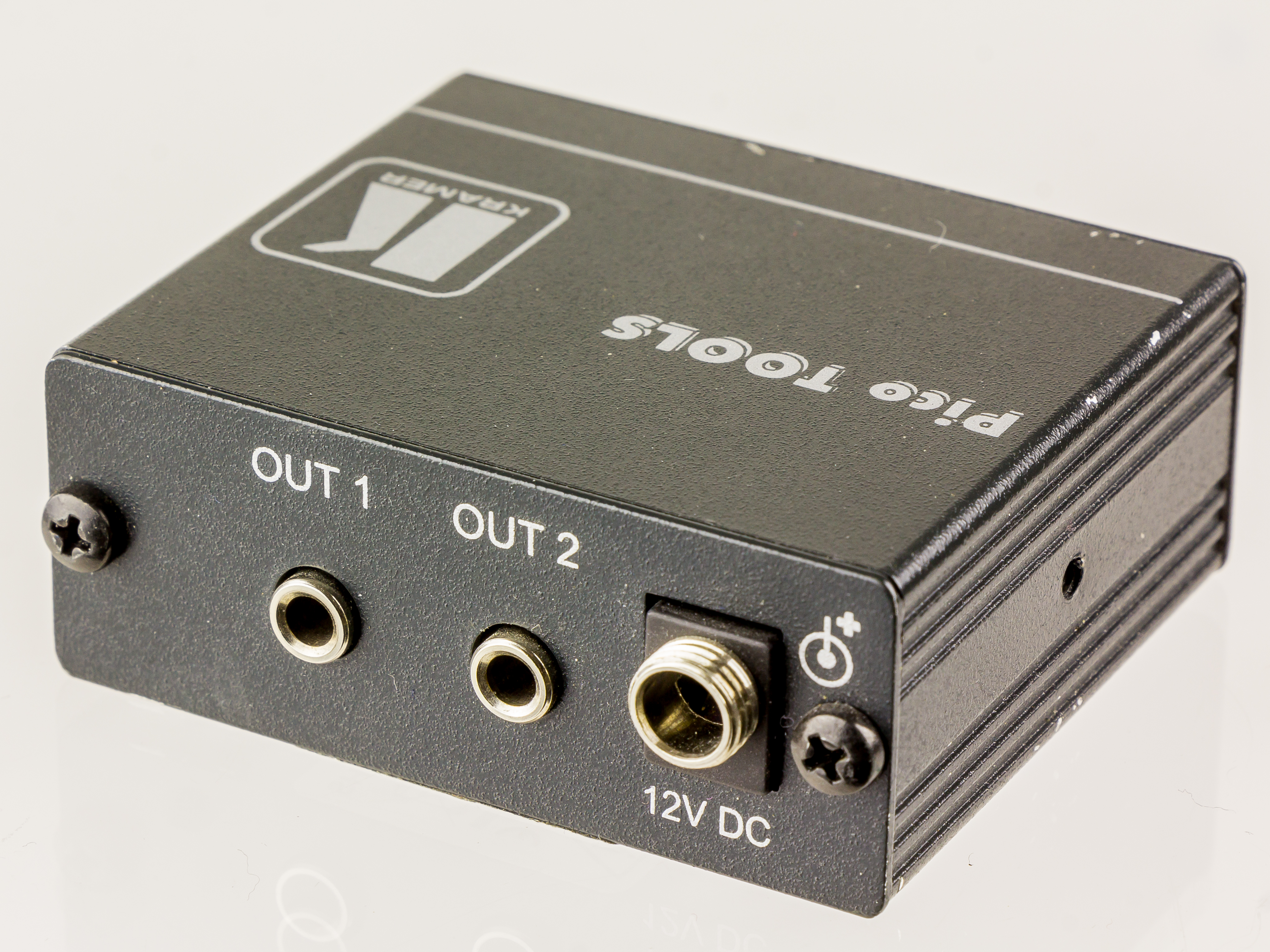 Kramer Electronics PT-102AN - Pico Tools 1:2 Audio DA